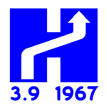 dagen H logo.